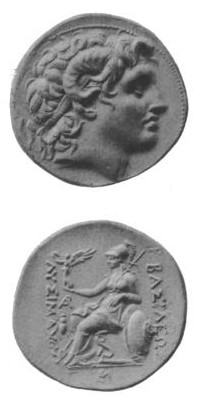 Coin of Lysimachus. Greek inscription reads ΒΑΣΙΛΕΩΣ ΛΥΣΙΜΑΚΟΥ ([coin] of King Lysimachus).